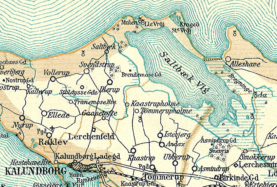 Map of Saltbæk Vig in Holbæk County, near Kalundborg in Denmark